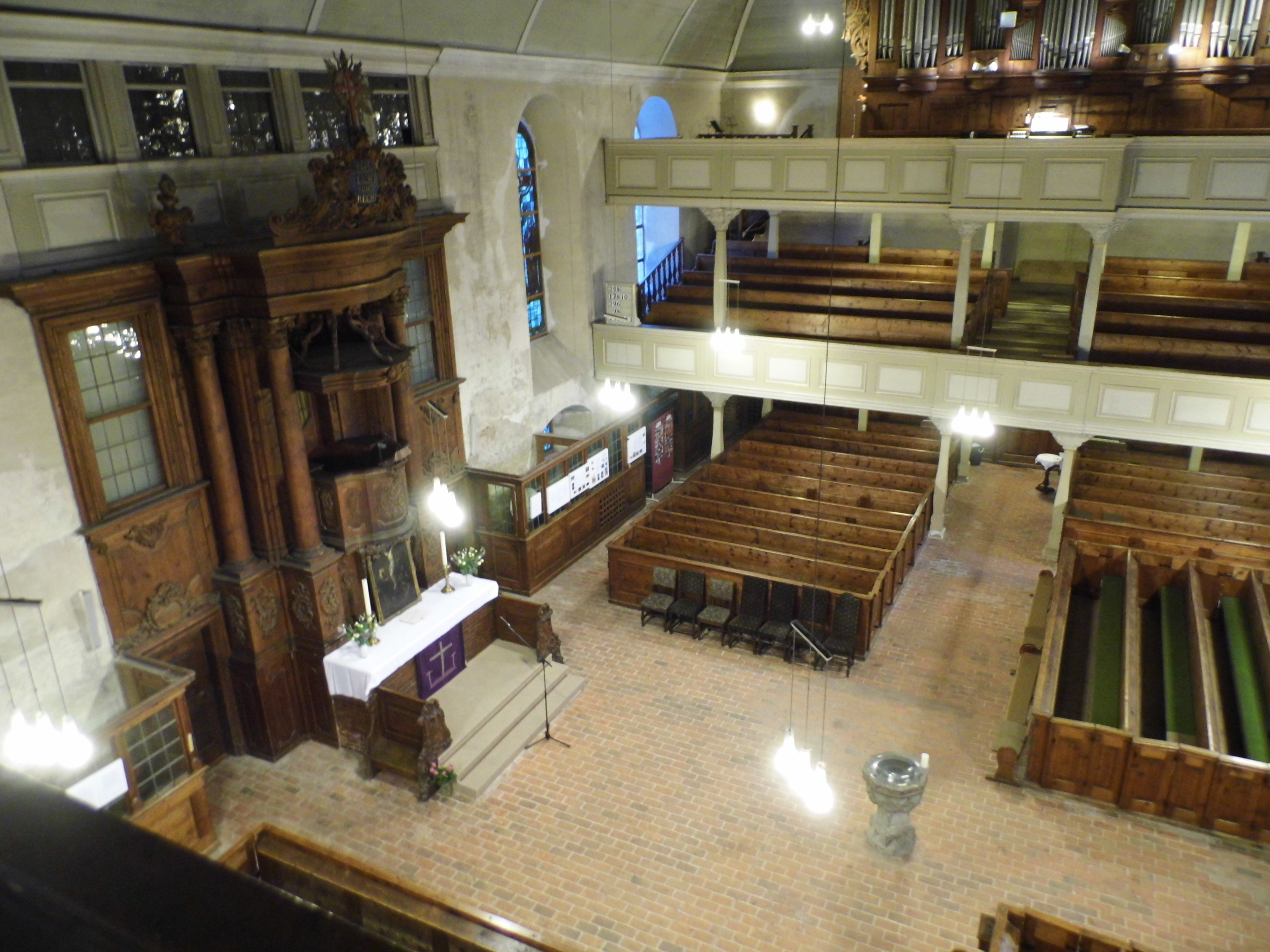 Blick von der obeeren Ostempore in die Kirche, gut zu erkennen die Anordnung des gestühls um den Altar